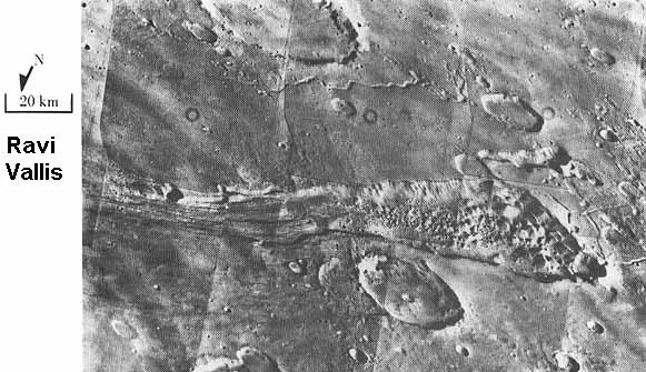 Ravi Vallis, as seen by Viking 1. Location is 1 S and 43 W.